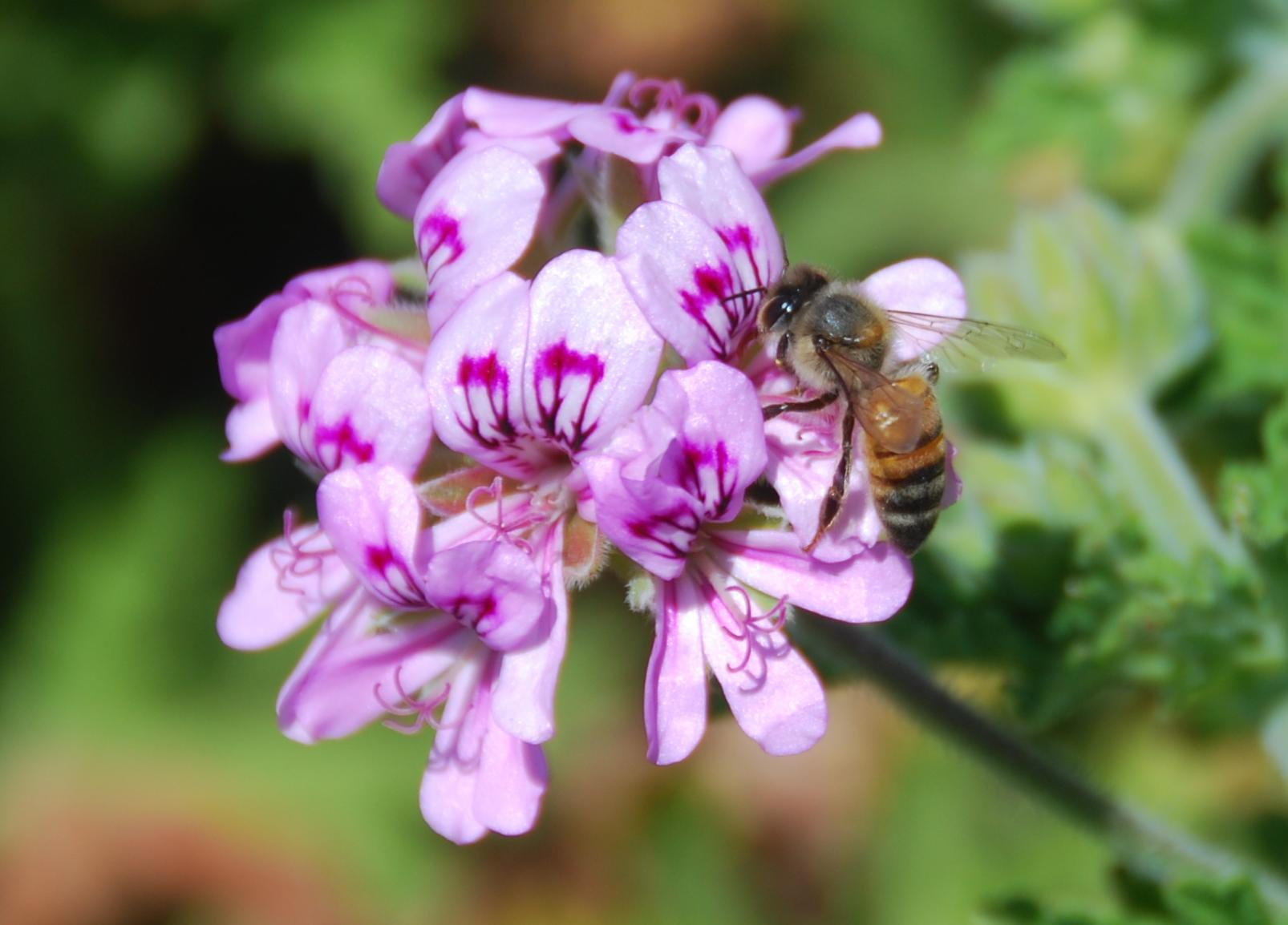 A honey bee pollinates a flower.